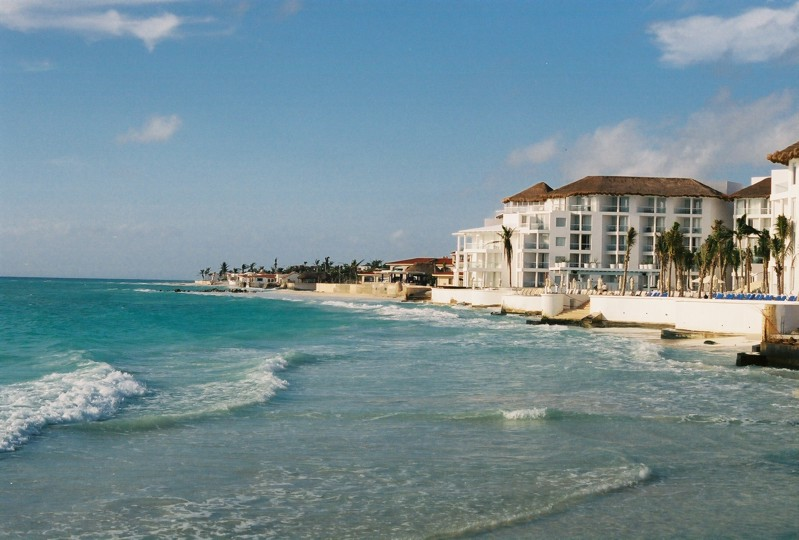 A picture from the ferry dock at Playa del Carmen